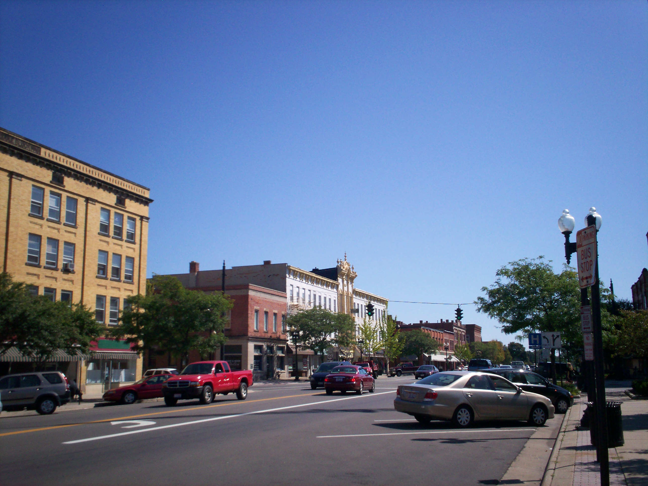 Downtown Ravenna, Ohio, along Main Street (State Route 59).